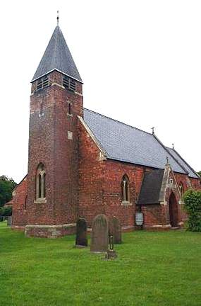 Holy Trinity parish church, Sykehouse, South Yorkshire, seen from the southwest